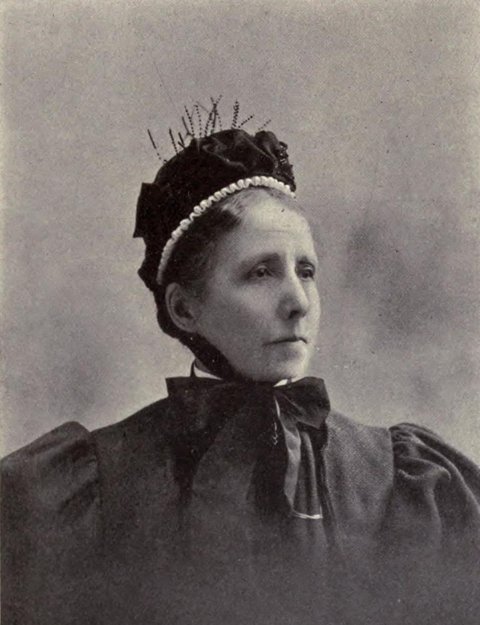 Mrs Harriet A Boomer by Shannon & Carson